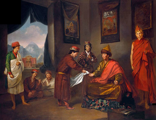 The Third Panchen Lama Receives George Bogle at Tashilhunpo